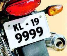 RTO Kerala